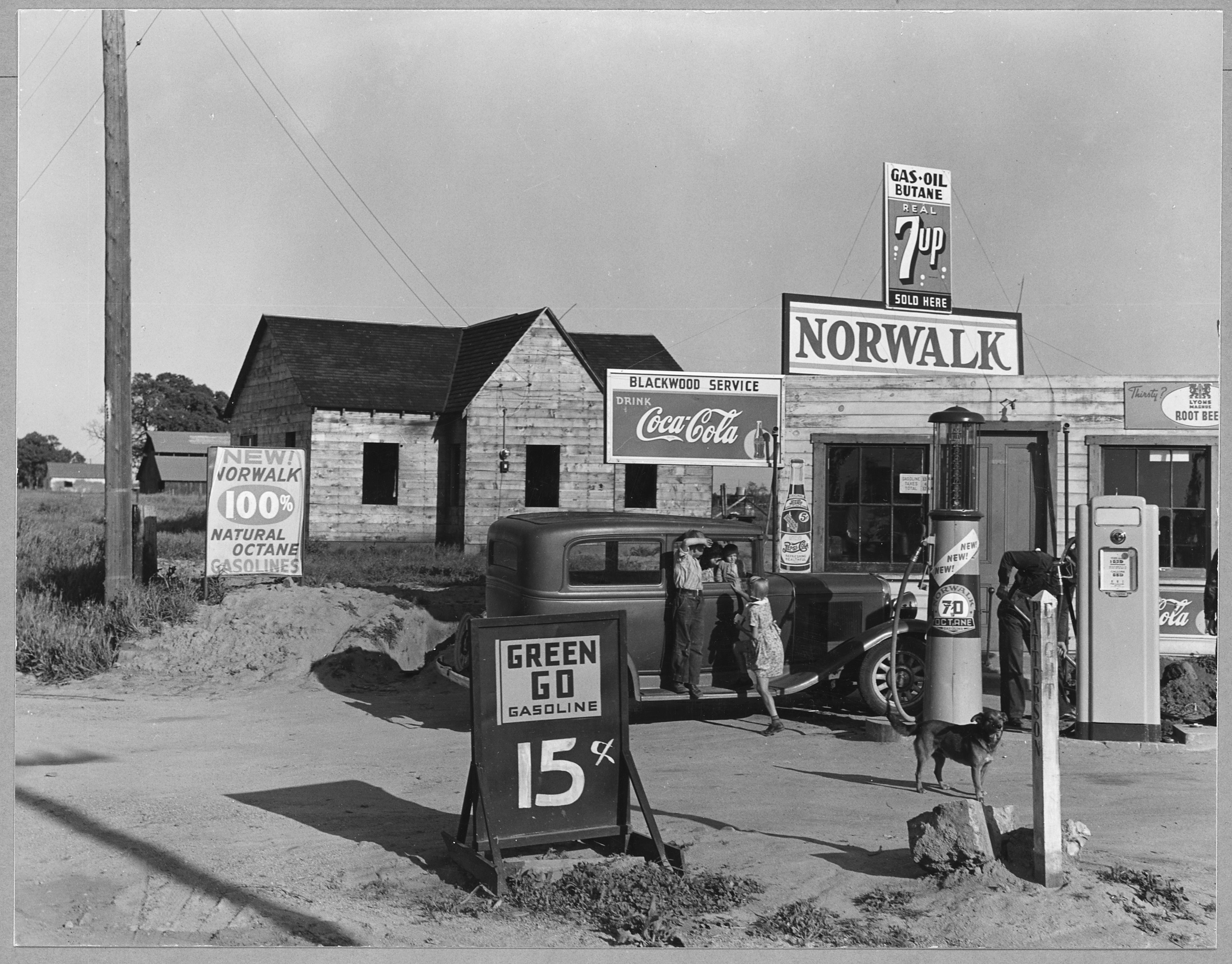 Scope and content: Full caption reads as follows: Riverbank, San Joaquin Valley, California. Newly-built store and trading center typical of new shacktown community. This community of about 70 families is located near large tomato cannery. The Blackwood Family who are building and operate this store came from Clay County, Arkansas; are one of four related families who have migrated to California since 1936.